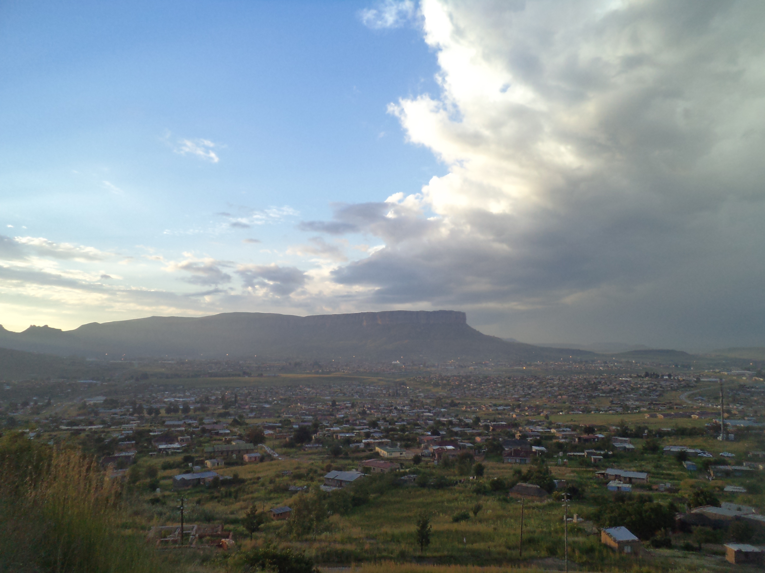 Qwaqwa, formely known as Witsieshoek and a former Apartheid Bantustan. This is where Chief Lephatsoana Witsie settled with his people back in the 1800s